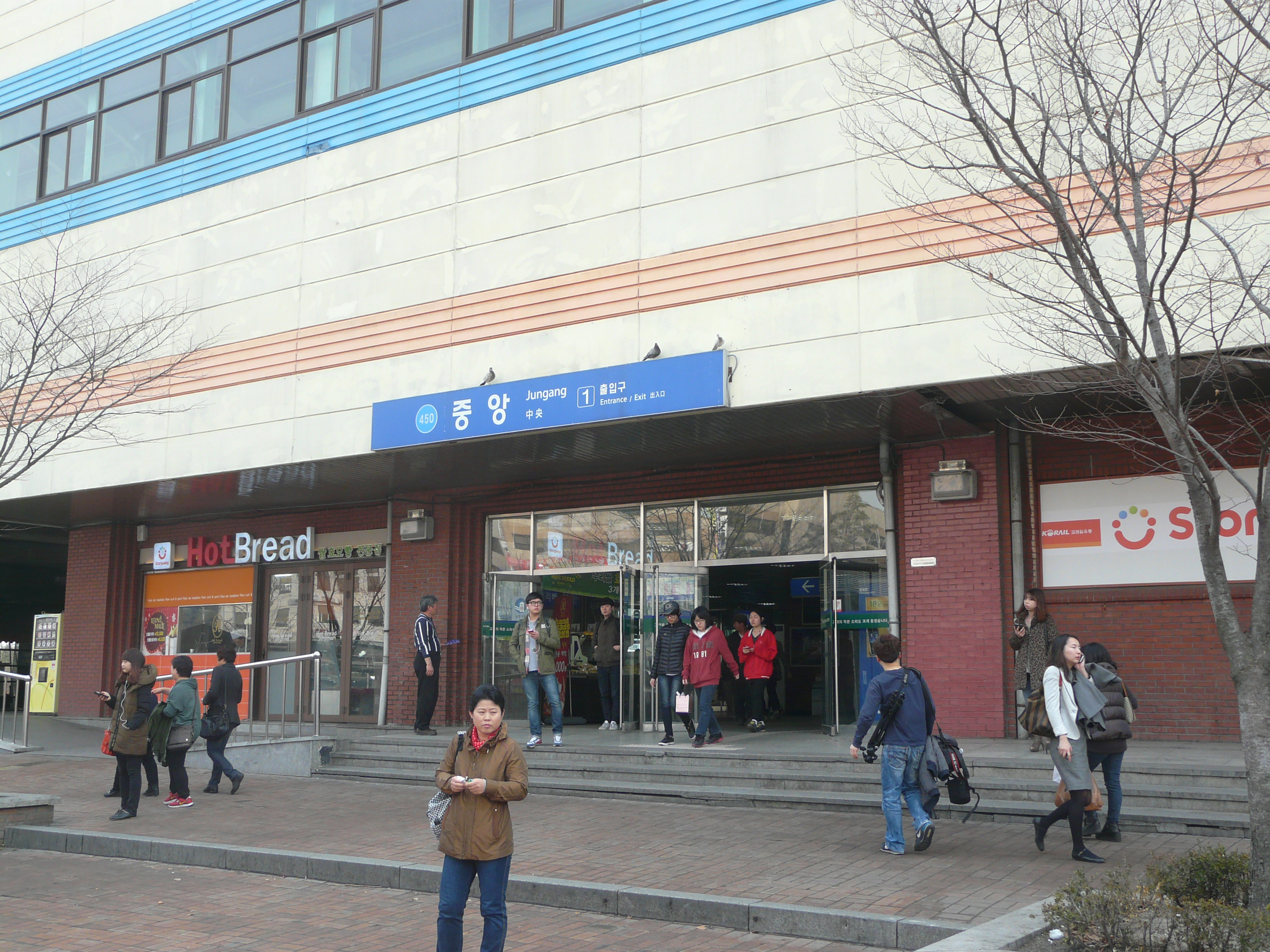 Photos from the city of Ansan, Korea.